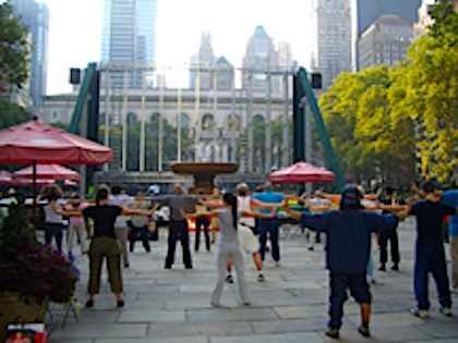 World Tai Chi & Qigong Day archive - New York City, Manhattan event